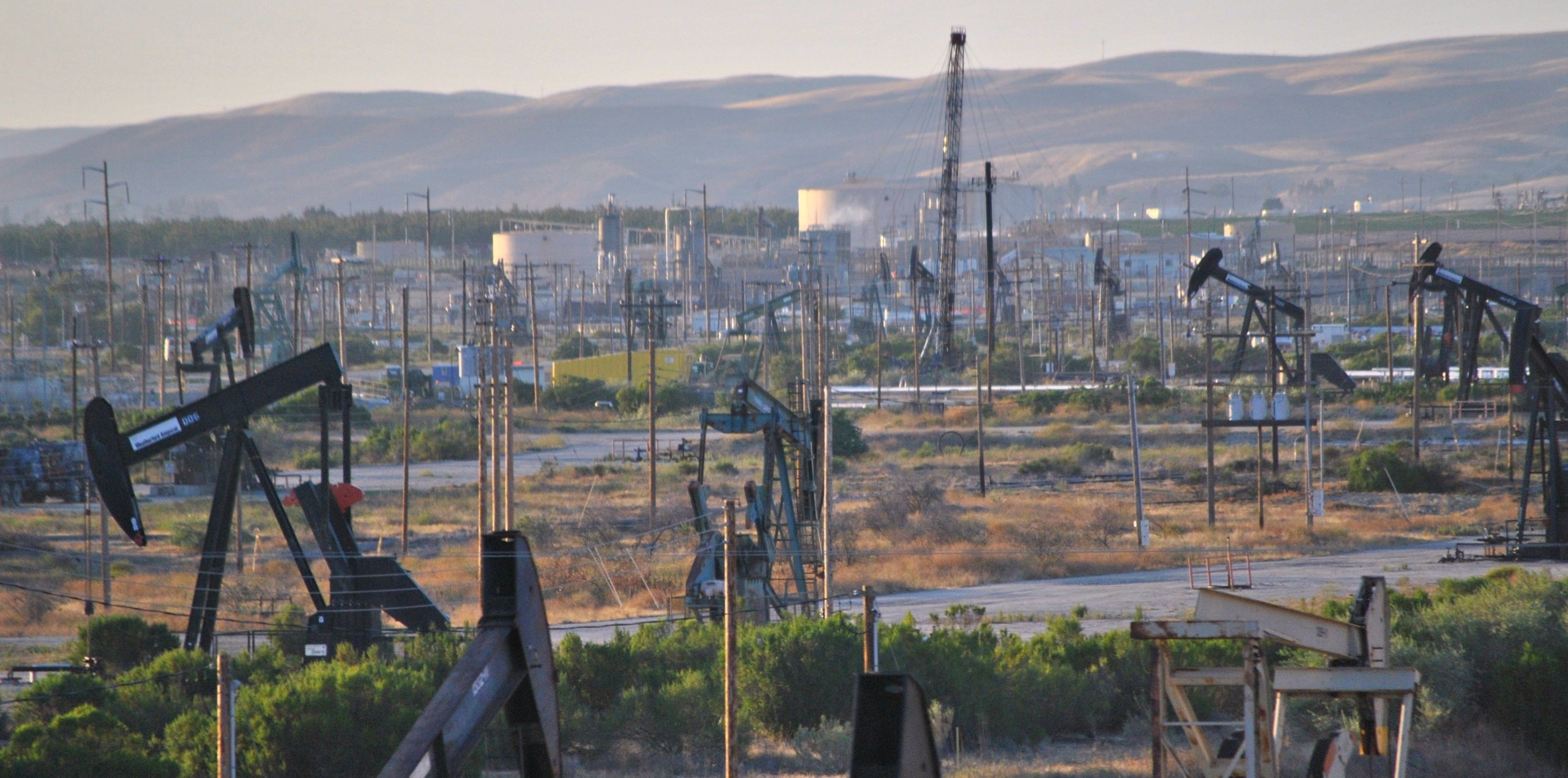 The San Ardo Oil Field is a large oil field in Monterey County, California, in the United States. It is in the upper Salinas Valley, about five miles (8 km) south of the small town of San Ardo, and about twenty miles (32 km) north of Paso Robles. With an estimated ultimate recovery of 530,000,000 barrels (84,000,000 m3) of oil, it is the 13th-largest oil field in California, and of the top twenty California oil fields in size, it is the most recent to be discovered (1947). As of the end of 2006, the principal operators of the field were Chevron Corp. and Aera Energy LLC. This photo was taken from Amtraks Coast Starlight train This Image also appears in 'Amtrak train Routes'